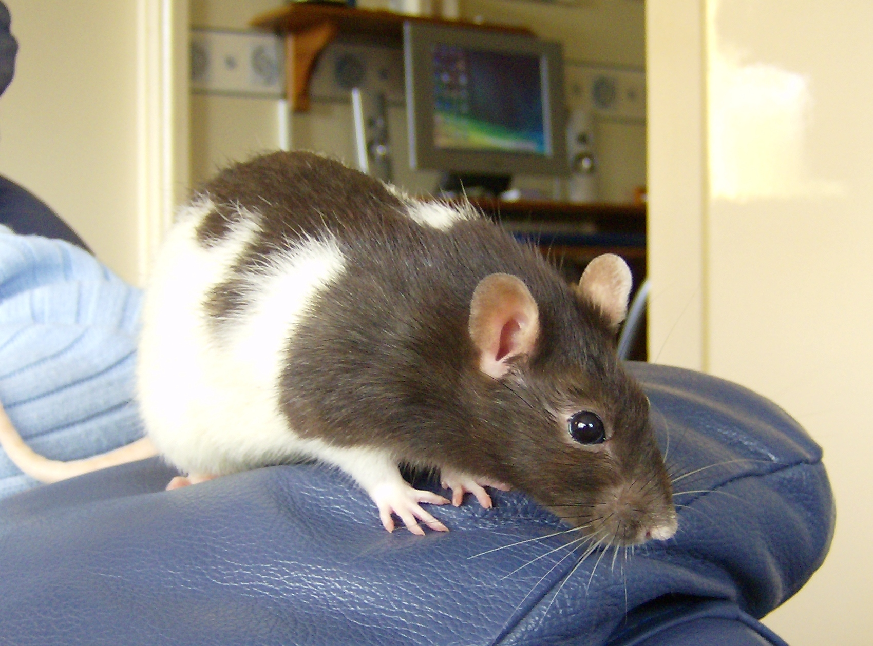 A brown hooded rat show sitting on the arm of a leather chair